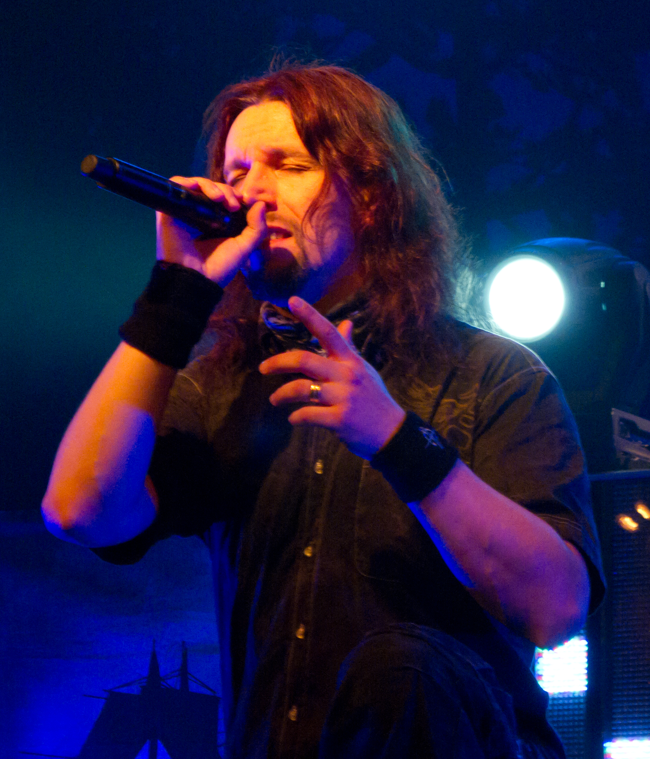 Tony Kakko (Sonata Arctica) in concert.